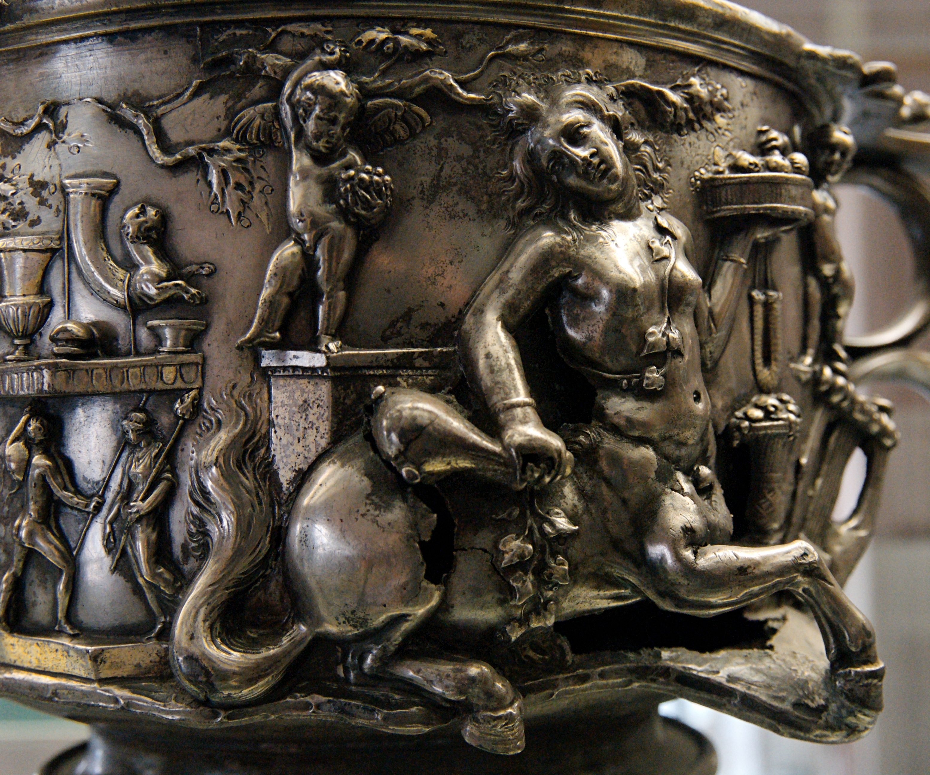 Tormented centauress; one amorino hurling acorns, the other reaching intro her basket, detail from one of the Berthouville Centaur cups. Repoussé silver, Italy, middle 1st century AD. From the Berthouville treasure, 1830.